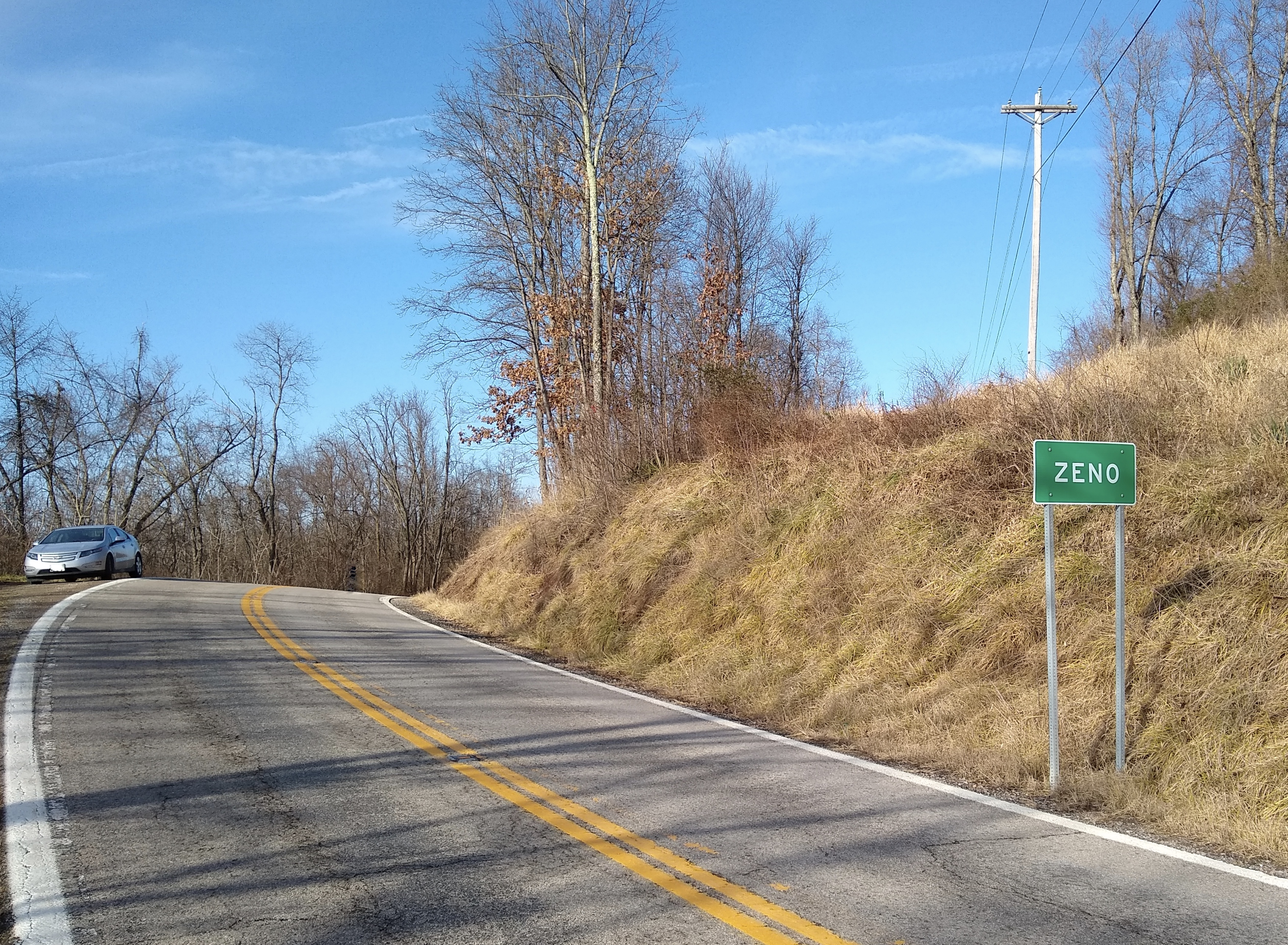 The sign for the southern limit of the unincorporated place of Zeno, Muskingum County, Ohio. Taken 30 December 2018.